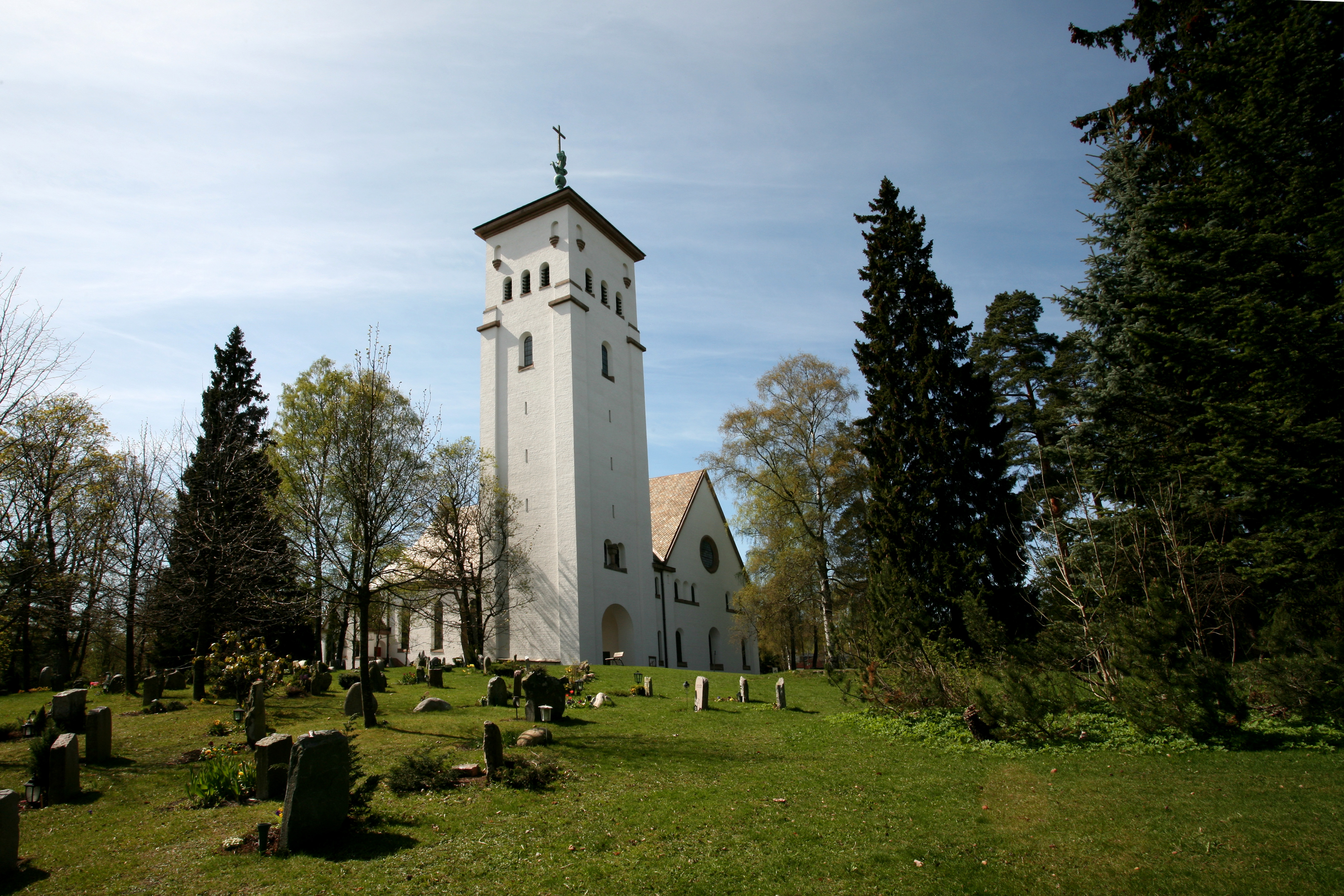 Picture of Ris Church (Oslo - Norway)